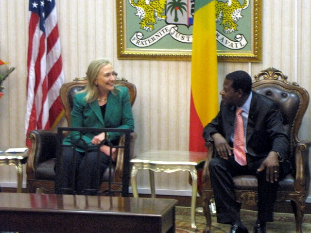 U.S. Secretary of State Hillary Rodham Clinton meets with Benin's President Boni Yayi in Cotonou, Benin, on August 10, 2012. [State Department photo/ Public Domain]